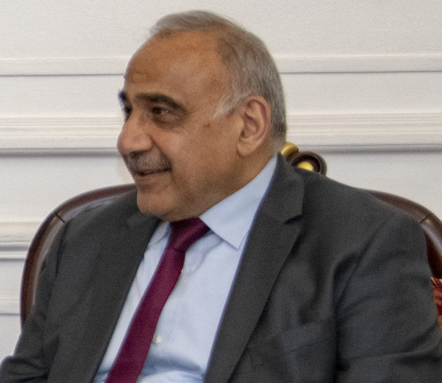 Secretary of State Michael R. Pompeo meets with Iraqi Prime Minister Adil Abdul-Mahdi, Baghdad, Iraq, May 7, 2019. [State Department Photo by Ron Przysucha/Public Domain]